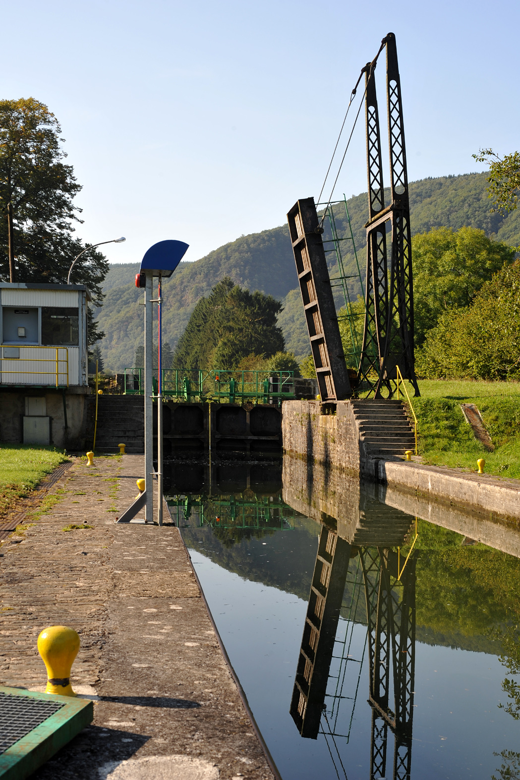 Bascule bridge over the lock N° 48 Les Dames de Meuse at the Meuse channel near Anchamps; Ardennes, France.